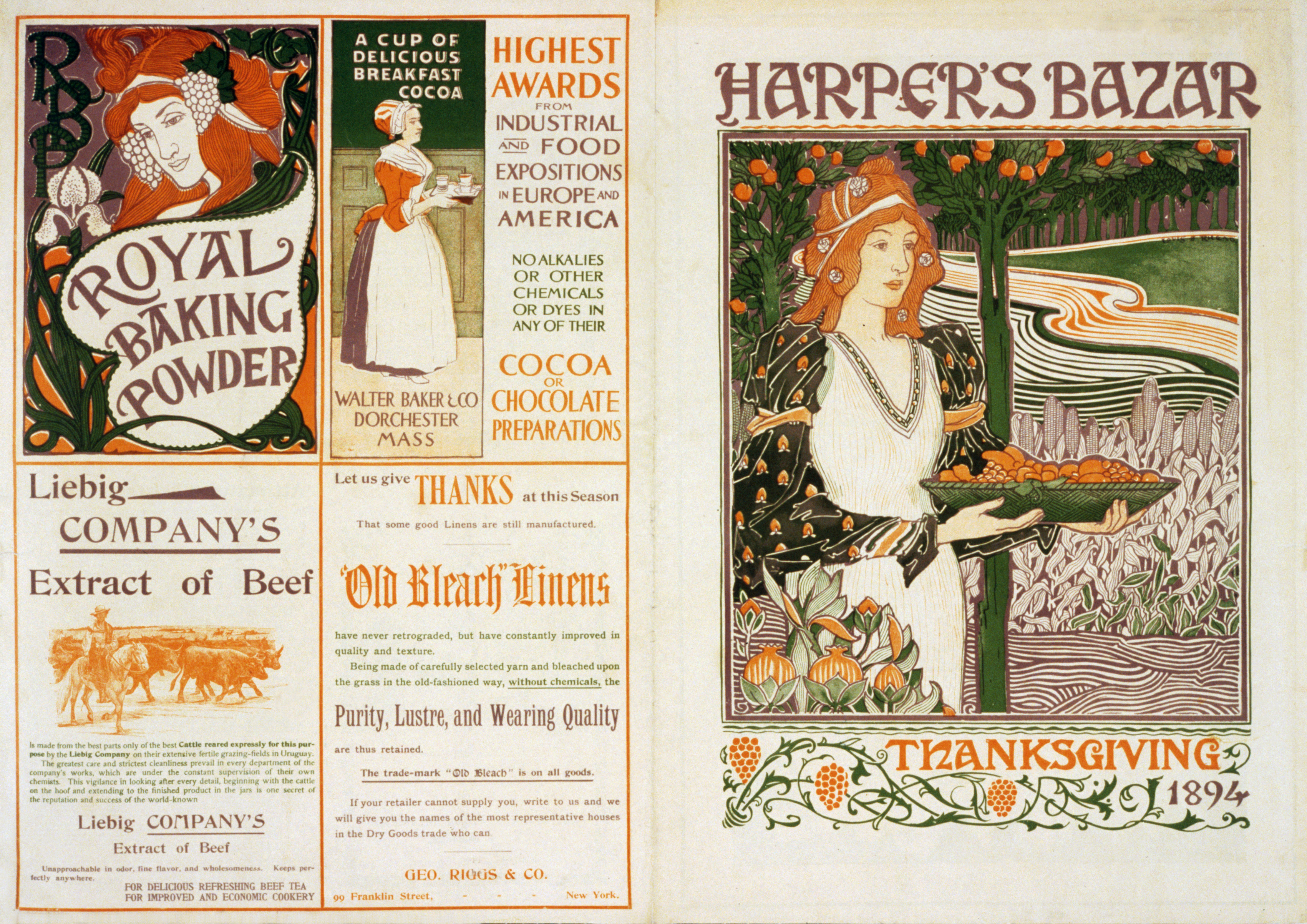 Front and back cover of Harper's Bazar [sic] magazine, Thanksgiving 1894, with front an illustration of woman with bowl of fruit amid fruit trees and corn. Advertisements on back cover for Royal baking powder, Baker's cocoa, Liebig's extract of beef, and Geo. Rigg's "Old bleach" linens.